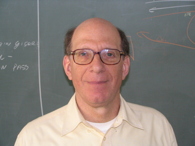 Andrew S. Tanenbaum. Picture made with permission of Mr Tanenbaum